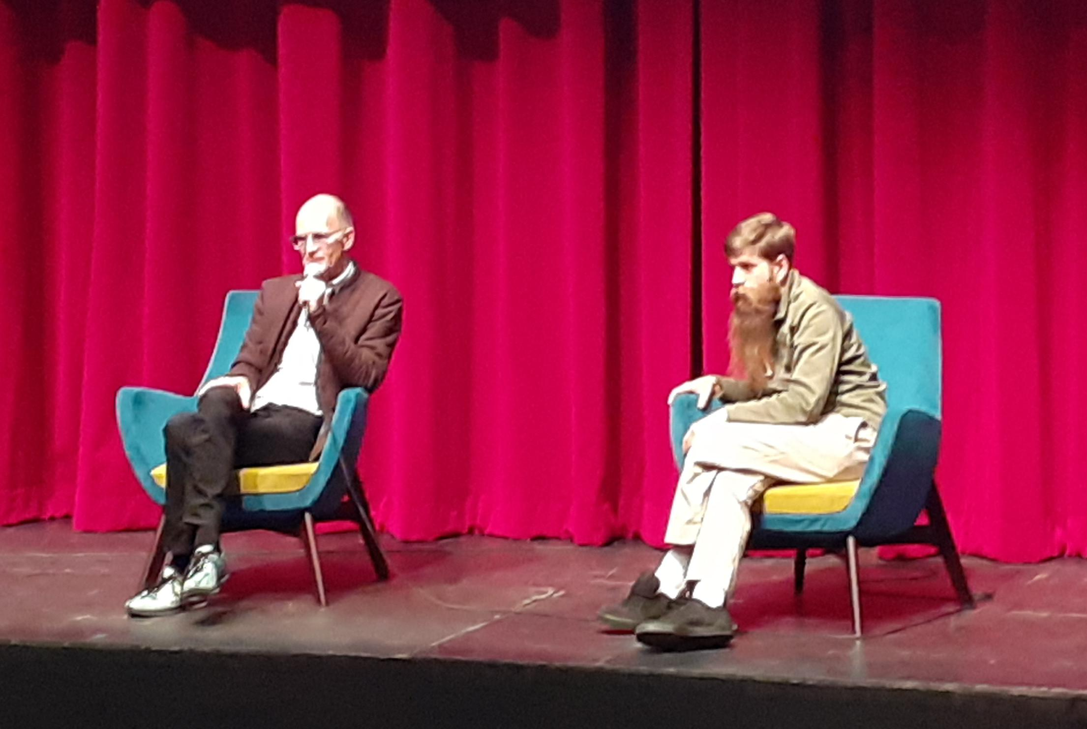 Cookie Time founder Michael Mayell (left) and cannabis activist Abe Gray answer questions following a lecture on cannabis and their plans for the Whakamana Cannabis Museum in the Ngaio Marsh Theatre at the University of Canterbury, New Zealand.